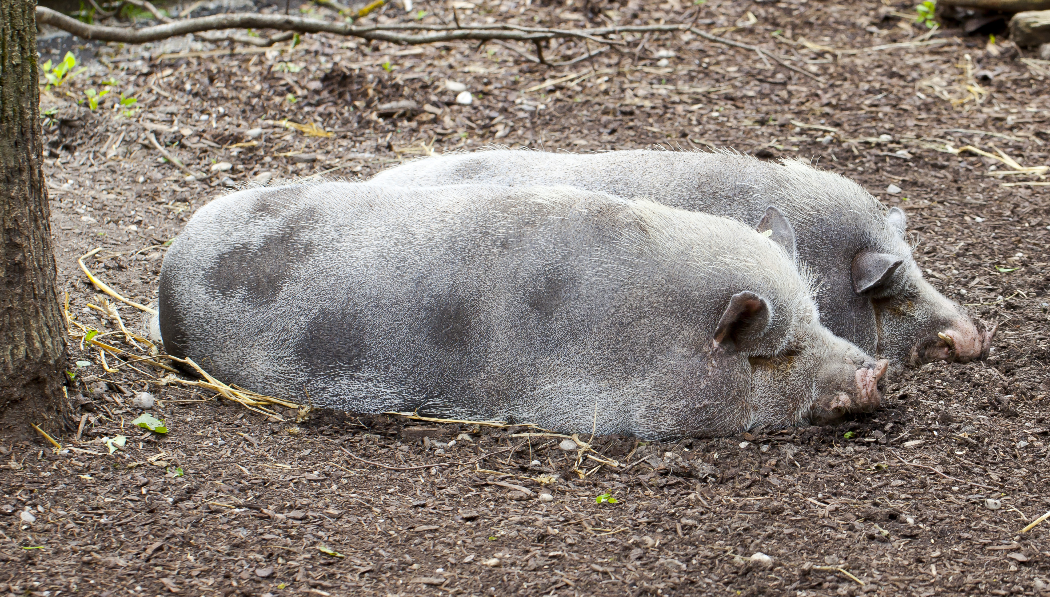 Turopolje pig, Tierpark Hellabrunn, Munich, Germany